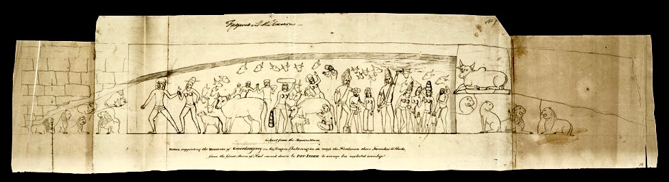 The sketch produced and published in 1816 is of the bas-relief in the Krishna Mandapam, a Mahabalipuram monument at a UNESCO world heritage site. It shows the daily life, integrated into Krishna rasa lila Hindu mythology. From the source, Pen and ink drawing of the sculptures in the interior of the Krishna Mandapa at Mamallapuram, by an anonymous artist, part of the MacKenzie Collection and from an Album of 37 drawings and plans of the temples and sculptures at Mamallapuram, c. 1816. Colin MacKenzie (1754-1821) joined the East India Company as an engineer at the age of 28 and spent the majority of his career in India. He used the salary he earned from his military career as a captain, major and finally a colonel to finance his research into the history and religion of Indian culture. During his surveys he collected and recorded details concerning every aspect of Indian architecture, language and religion, resulting in thousands of drawings and copies of inscriptions. Mamallapuram, a tiny village south of Chennai (Madras), was a flourishing port of the Pallava dynasty from the 5th - 8th centuries. The site is famous for a group of temples, a series of rock-cut caves and monolithic sculptures that were most likely created in the 7th century reign of Narasimhavarman Mahamalla. The caves are all fronted with fine columns resting on seated lions, typical of the Pallava style. The Krishna Mandapa is a columned hall with a large sculpture panel carved on the wall inside the cave. A part of the panel depicts the myth of Krishna with one hand up lifting Mount Govaradhana to protect the villagers from the torrential rains caused by Indra. The artists show the rock relief base as a part of the lifted mountain.